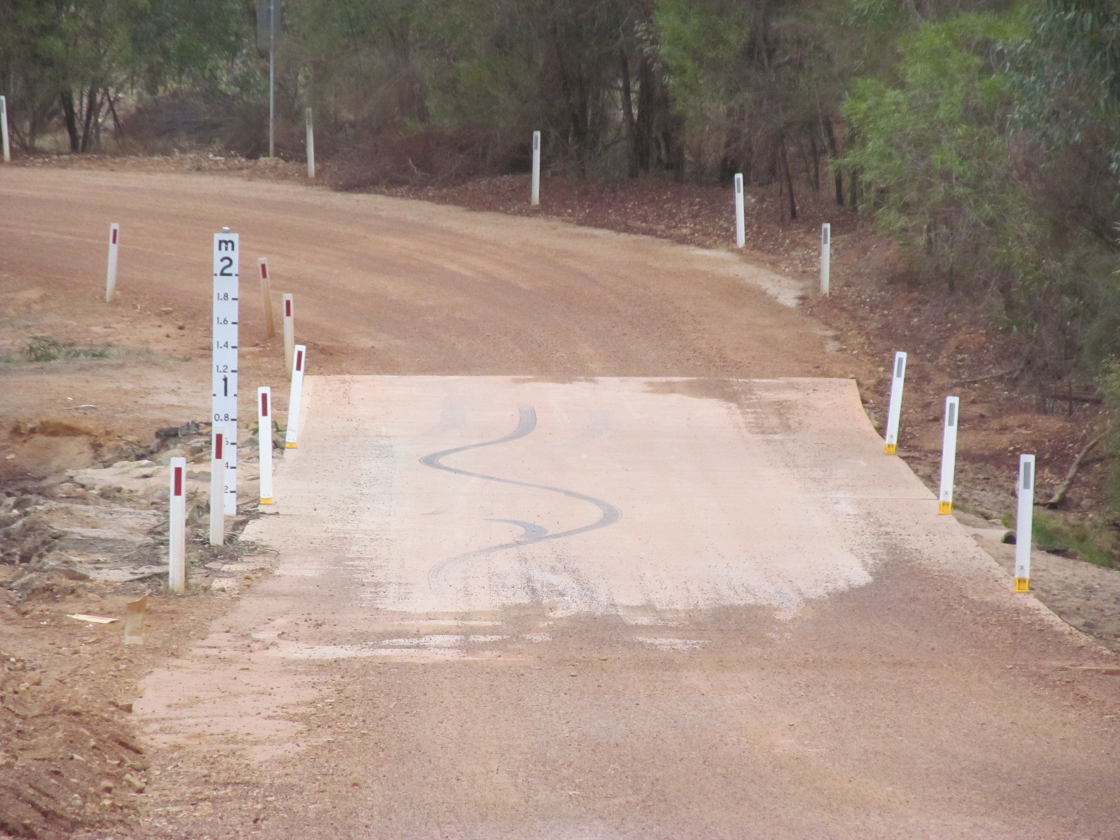 Floodway on River Road, West Toodyay.